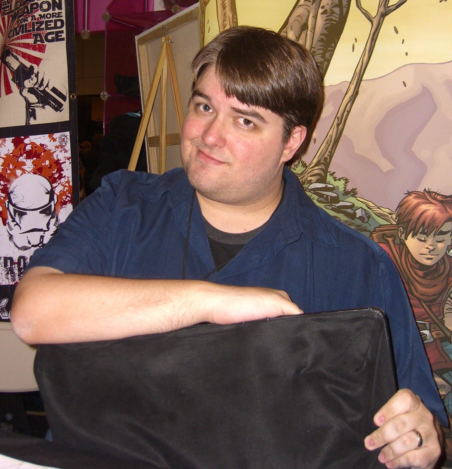 Comic book creator Jeremy Dale at the New York Comic Convention in Manhattan, October 10, 2010. This photo was created by Luigi Novi. It is not in the public domain, and use of this file outside of the licensing terms is a copyright violation.